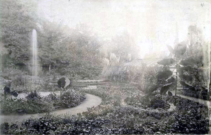 Tiflis: Botanical garden (cultivated part).